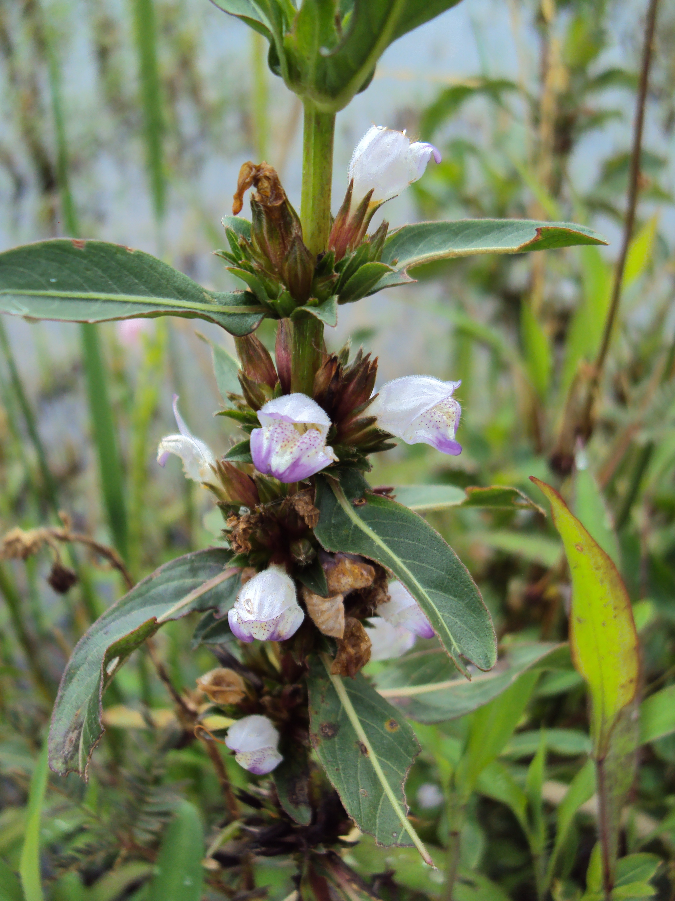 Hygrophila ringens